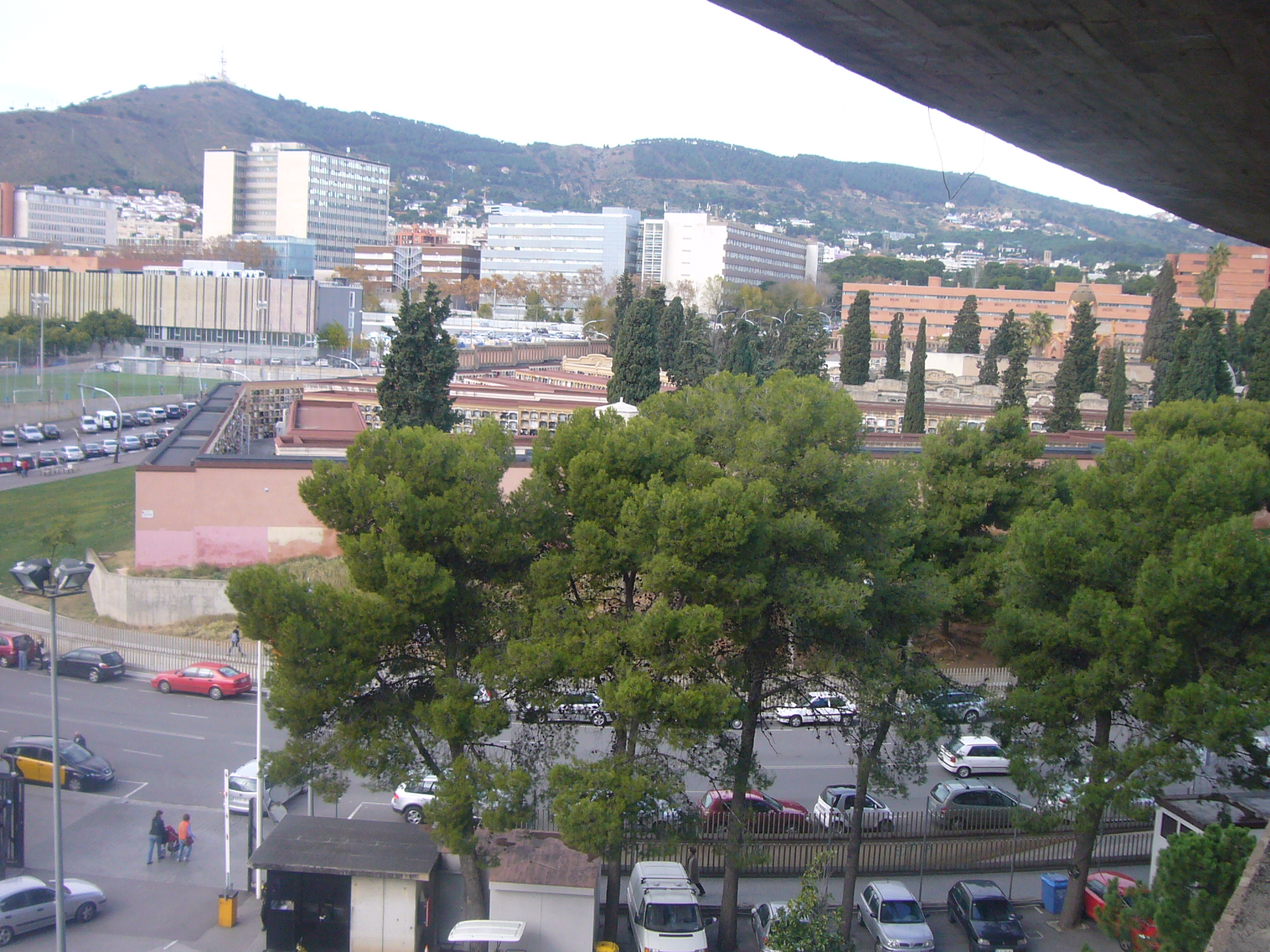 Les Corts cemetery. View from the top of the Camp Nou.